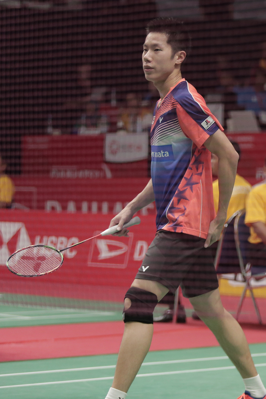 Goh V Shem in action at Indonesia Masters 2018